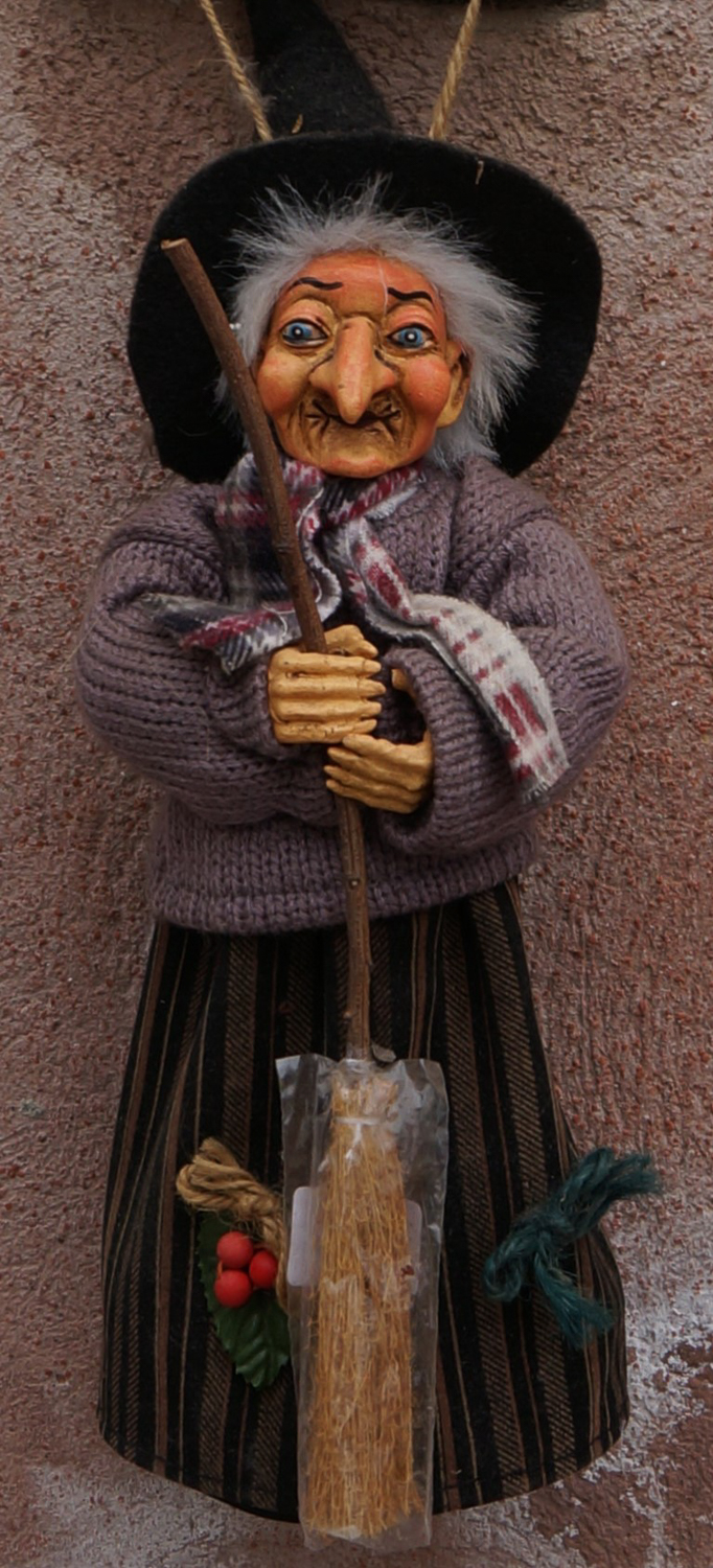 La Befana, "witch", in Friuli-Venezia Giulia, Italy. She brings on January 6th gifts to the children as well as good luck and blessing for the new year.